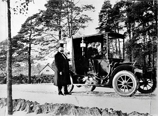 The picture is from about 1910 in Karlslund. The pround man in the hat could possibly be Anton Hahn, brother to Alfred Hahn.